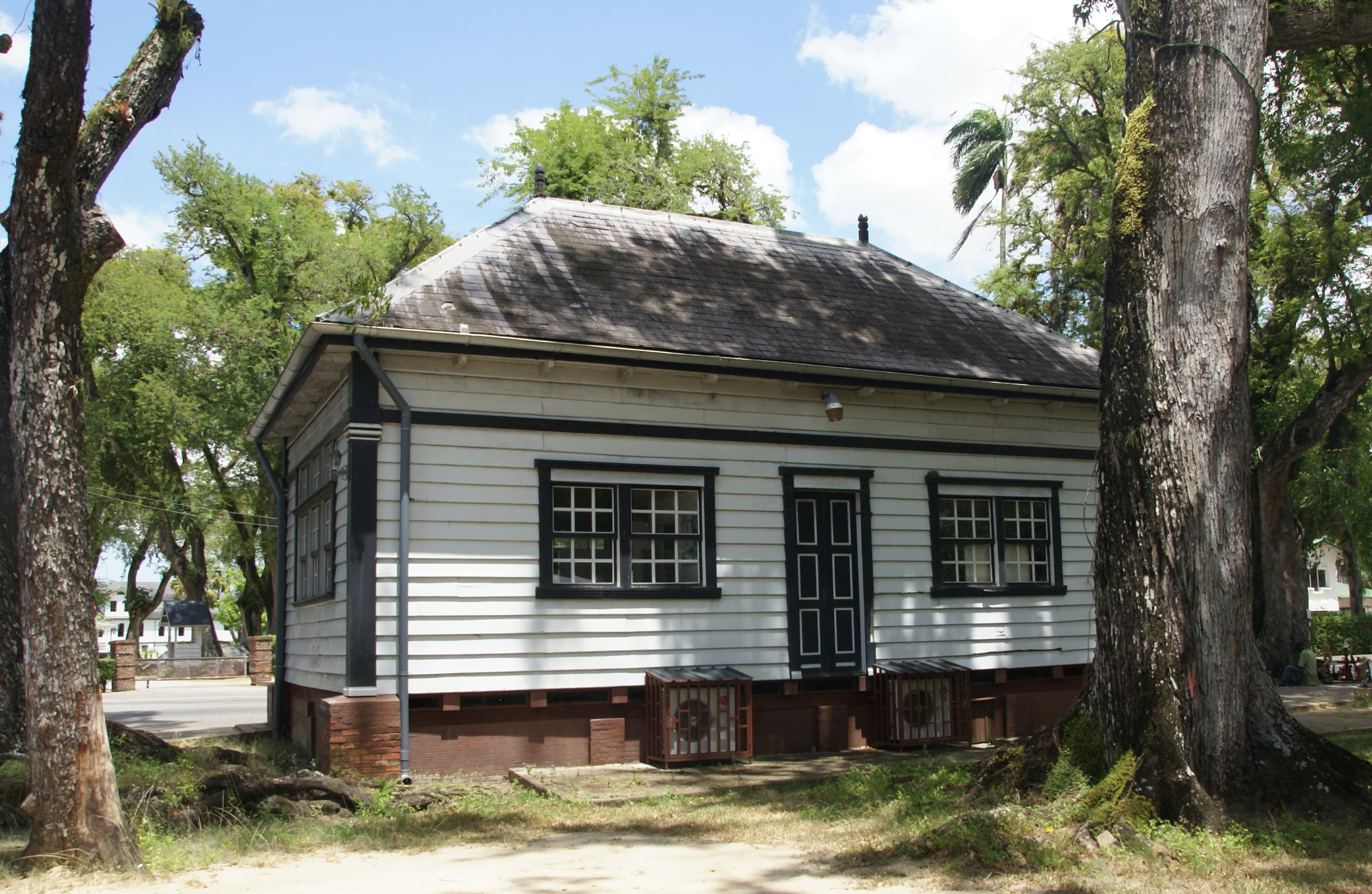 Abraham Crijnssenweg-Onafhankelijkheidsplein, Paramaribo, Surinam.